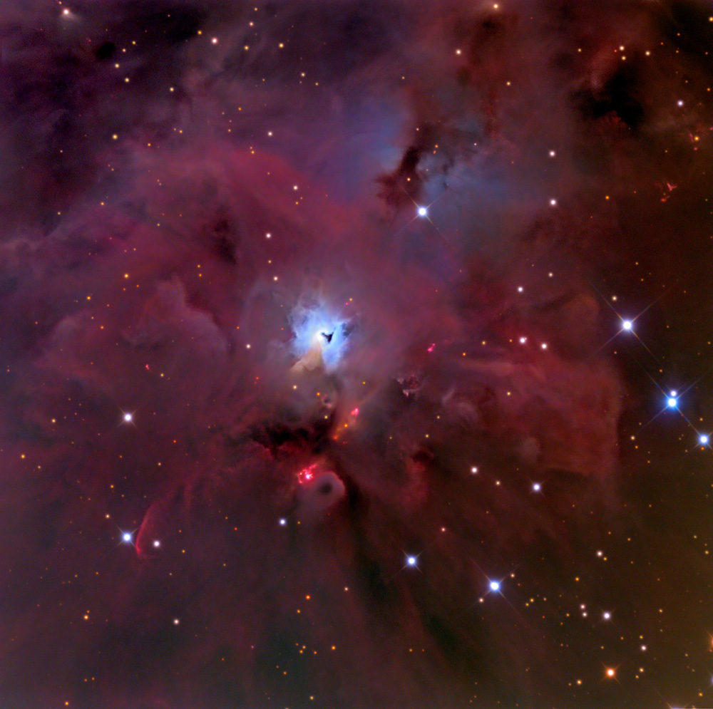 Deep exposures of Nebulae using the 0.8m Schulman Telescope at the Mount Lemmon SkyCenter Credit Line & Copyright Adam Block/Mount Lemmon SkyCenter/University of Arizona